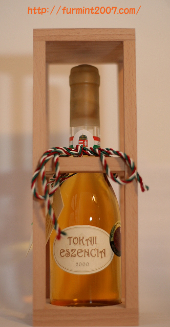 Tokaji Eszencia or Tokaji Nature Eszencia Most Great Sweetwine.